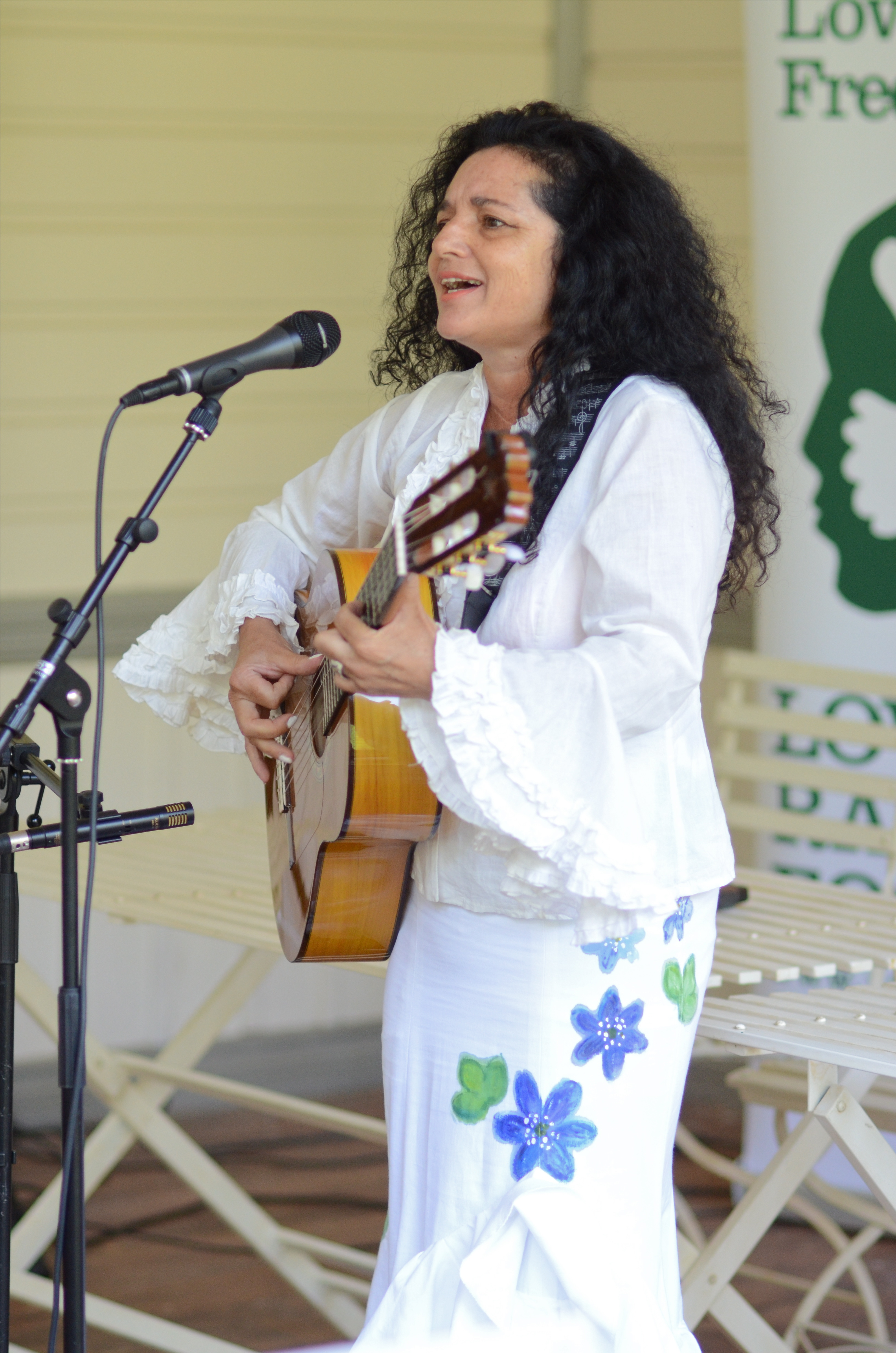 Spanish-Finnish singer-songwriter Cinta Hermo in Loviisa, Finland 2014.